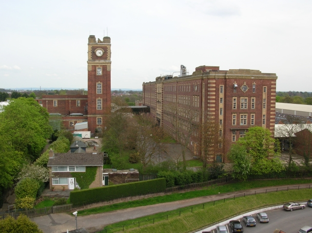 Terry's Factory The clock face is a givaway as to what this building used to be. Terry's now no longer make chocolate here in York. Taken from 4th floor of the Ebor stand at the racecourse.